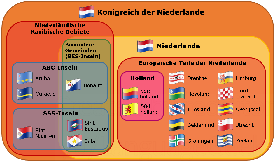 Euler Diagram of the Kingdom of the Netherlands.